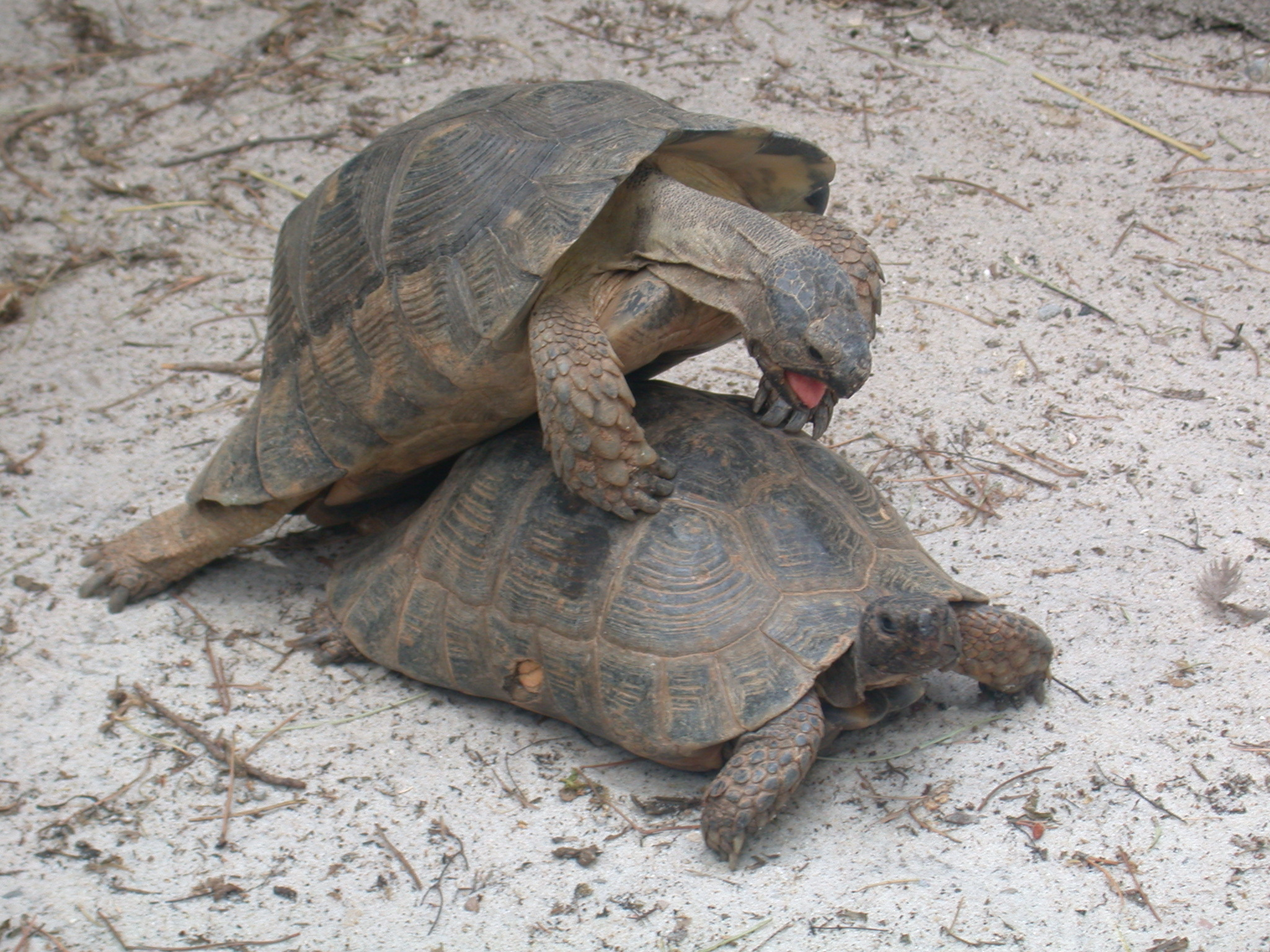 Testudo Marginata in Perugia, Italy.